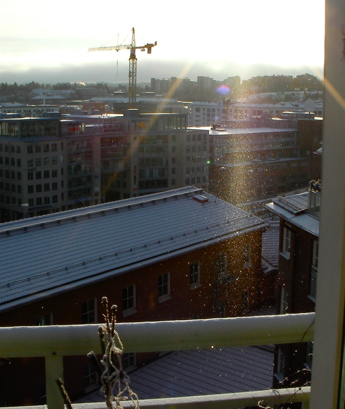 Local light pillar extending below the winter sun.